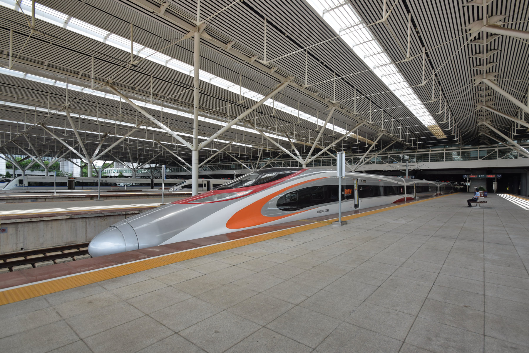 Guangzhou-Shenzhen-Hong Kong High-Speed Railway "Vibrant Express" (MTR CRH380A-0253) was stopping at Shenzhen Bei (North) Railway Station.